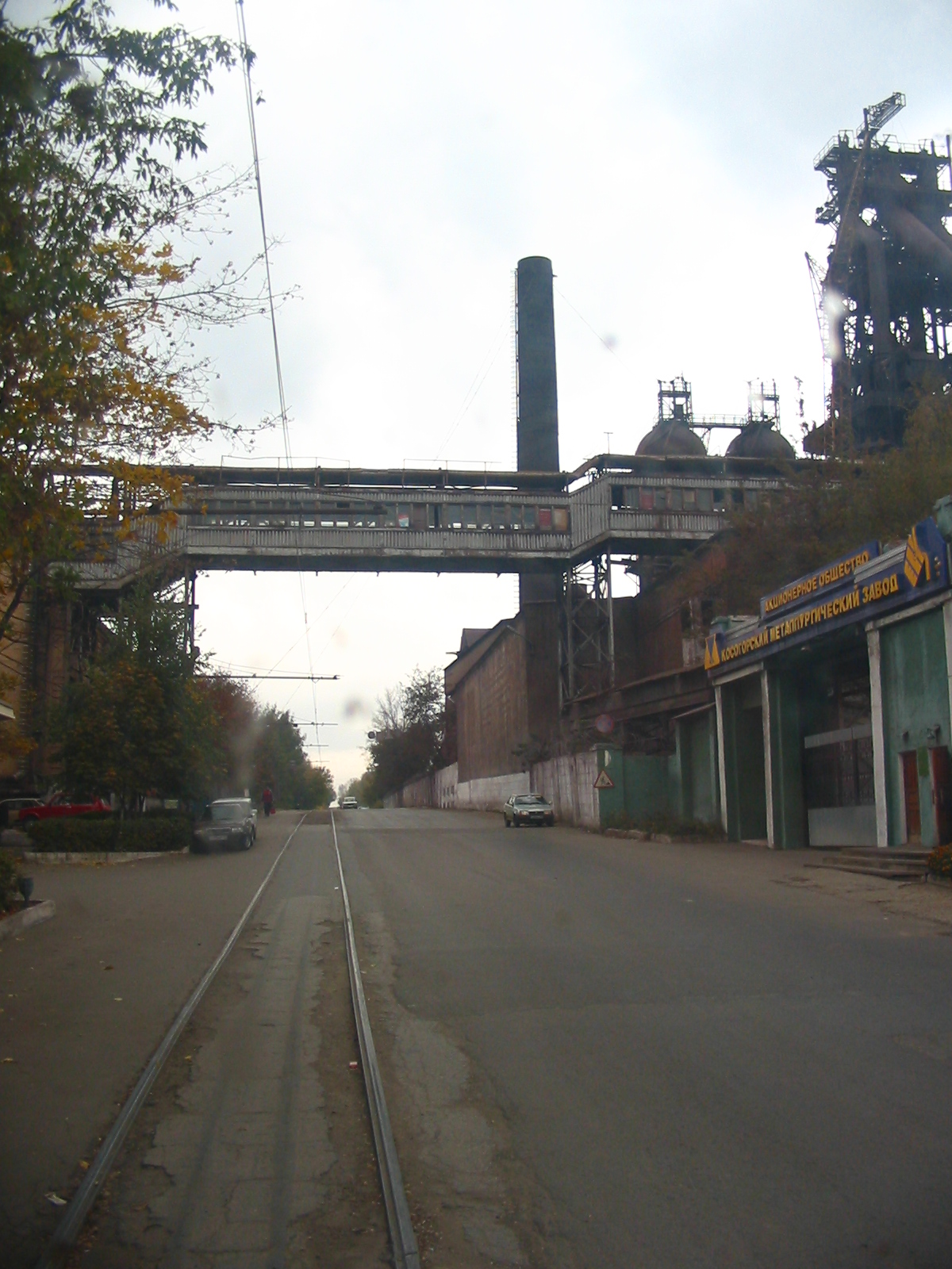 Tula, entrance of Kosaya Gora metal works